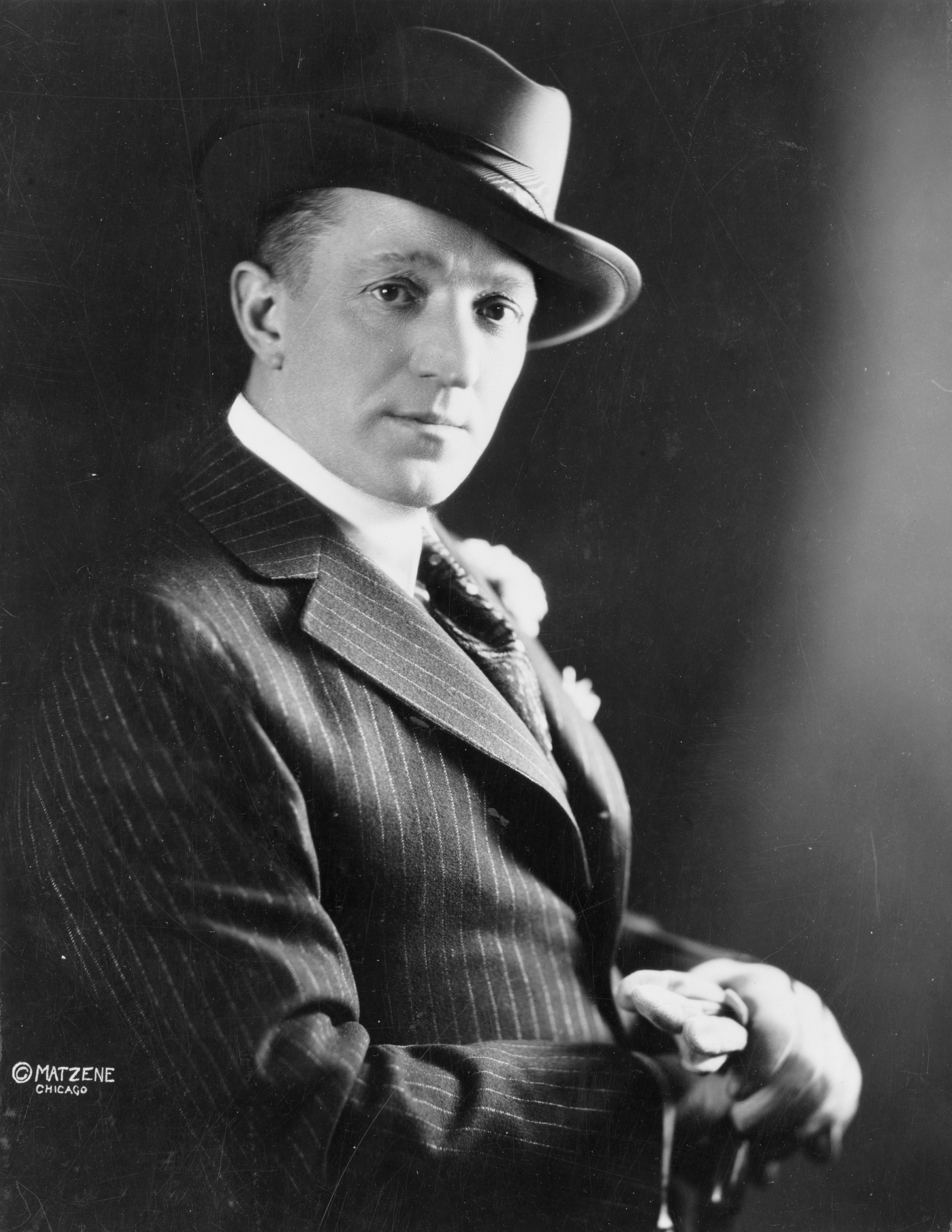 Charles Dalmorès, half-length portrait, facing right wearing hat.